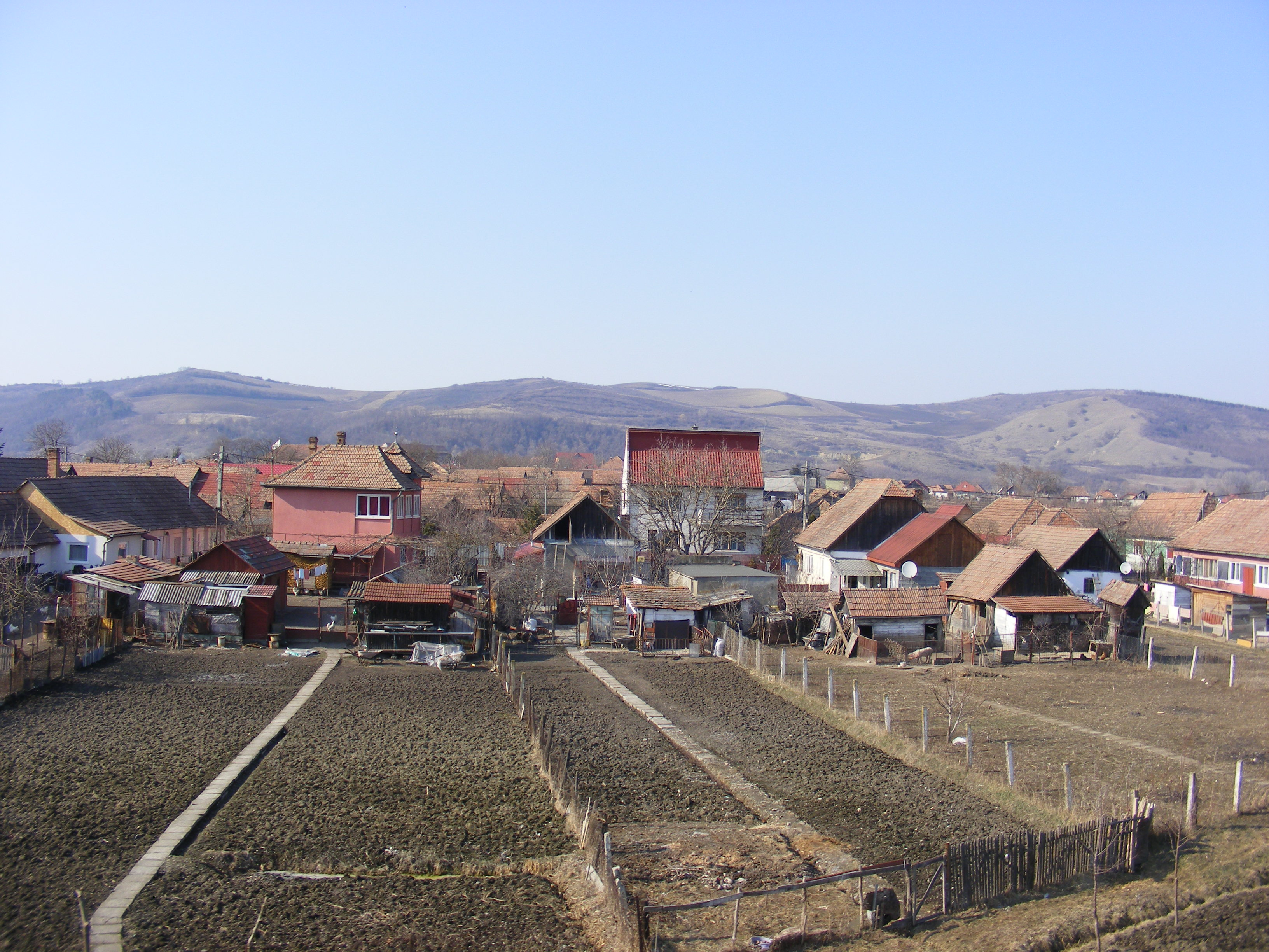 Wiew of Kerelőszentpál (Sânpaul), in Romania, Mureş county.